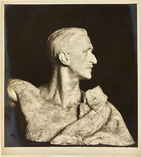 Plaster cast for a bronze bust of Colonel Duke di Valminuta by the Australian sculptor Dora Ohlfsen (1869–1948), who lived and worked in Rome for decades. This photograph of the cast was taken by her in Rome and sent to her niece, Dora Stanford. Stanford gave it to the Art Gallery of New South Wales, which published it on its website a few years ago. The photograph was not published in Ohlfsen's lifetime.